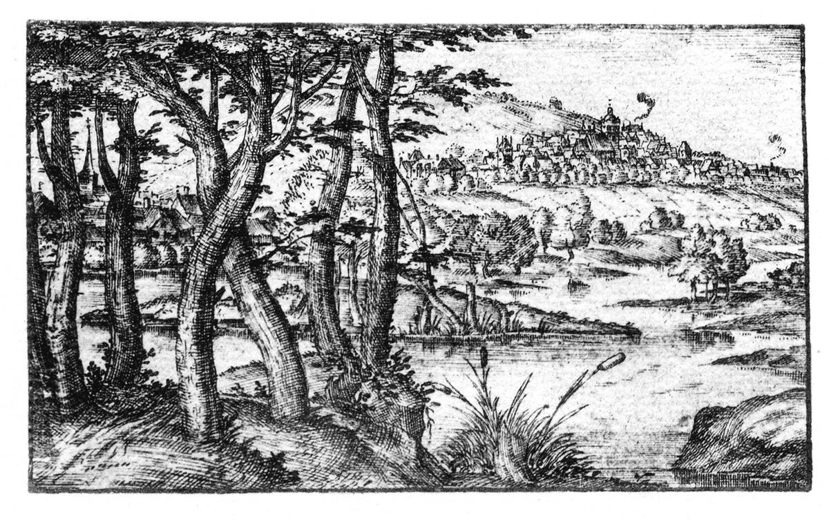 Sight at Borken (Hesse) (Wilhlem Dillich, 1591)